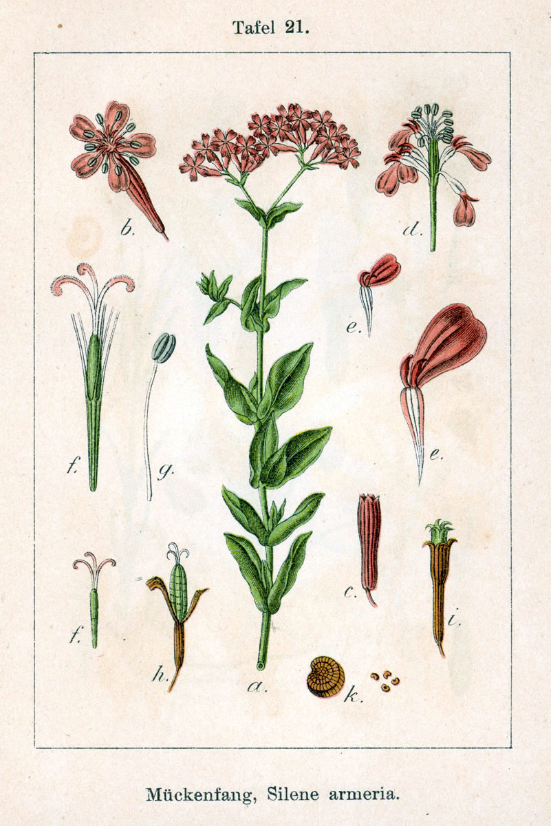 Silene armeria L., syn. Atocion armeria (L.) Raf. Original Description Mückenfang, Silene armeria